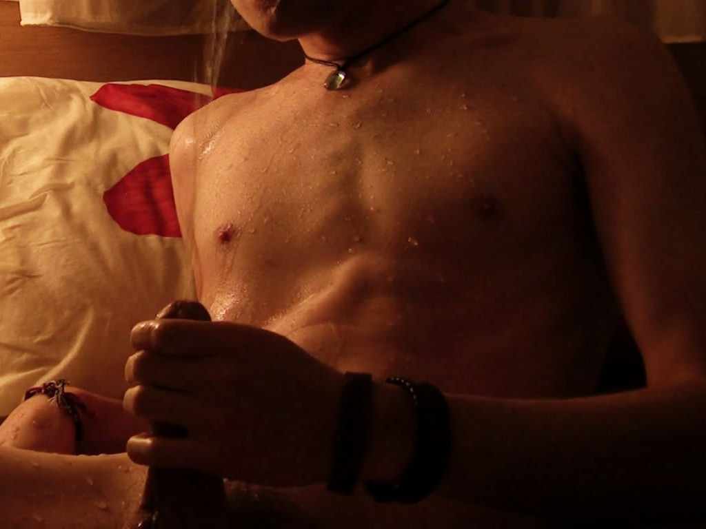 Male at age 23 urinating on self